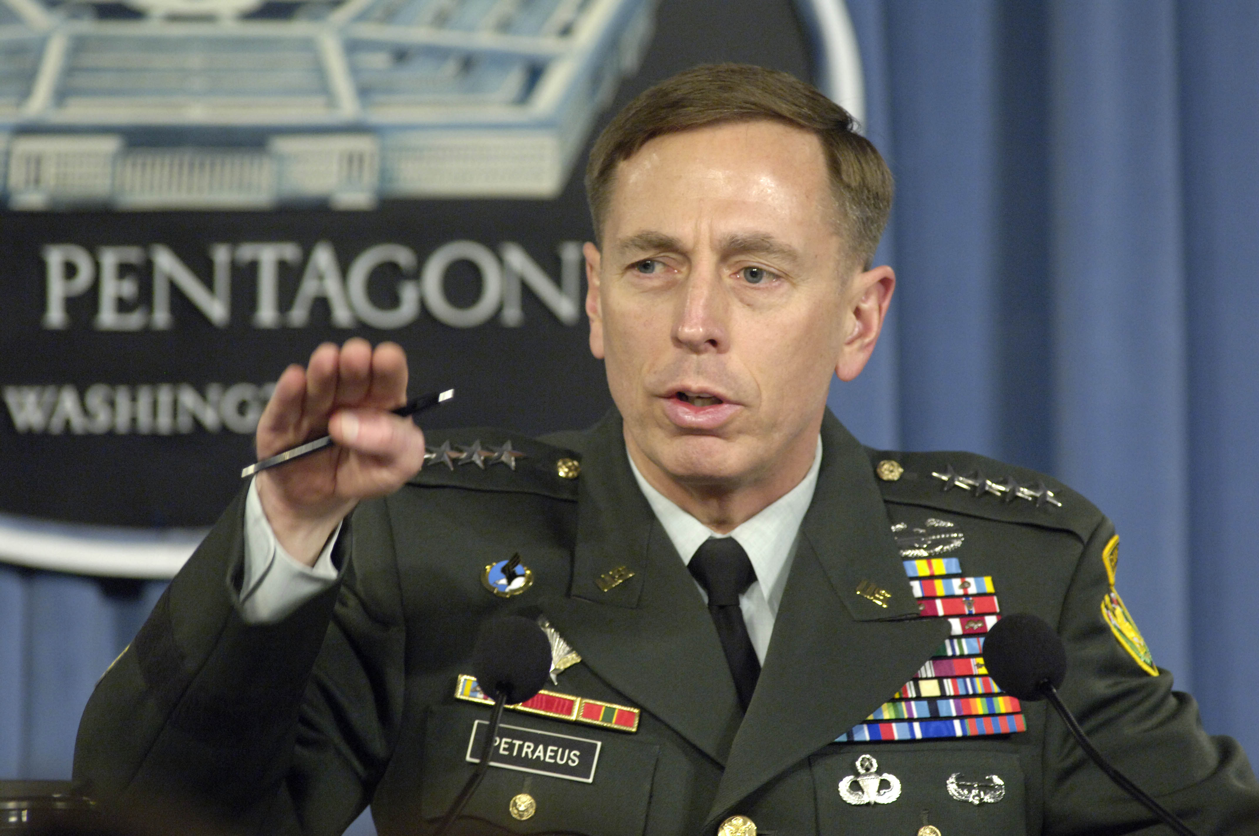 Commander, Multinational Force-Iraq Gen. David Patraeus, U.S. Army, talks to reporters on the current military situation in Iraq during a press briefing in the Pentagon on April 26, 2007.